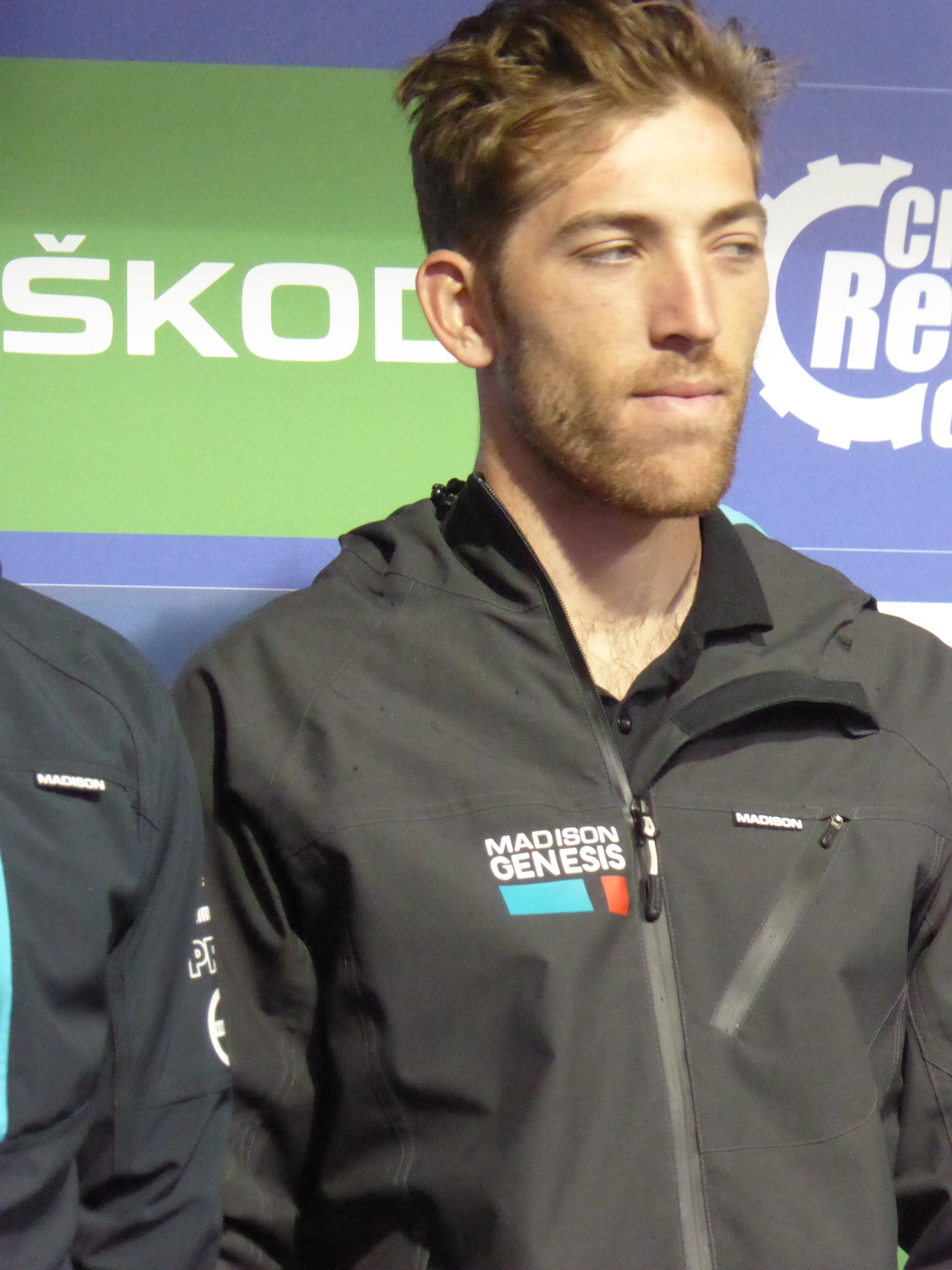 Taylor Gunman (Madison Genesis), pictured at the 2016 Tour of Britain team presentation in Glasgow on 3 September 2016.